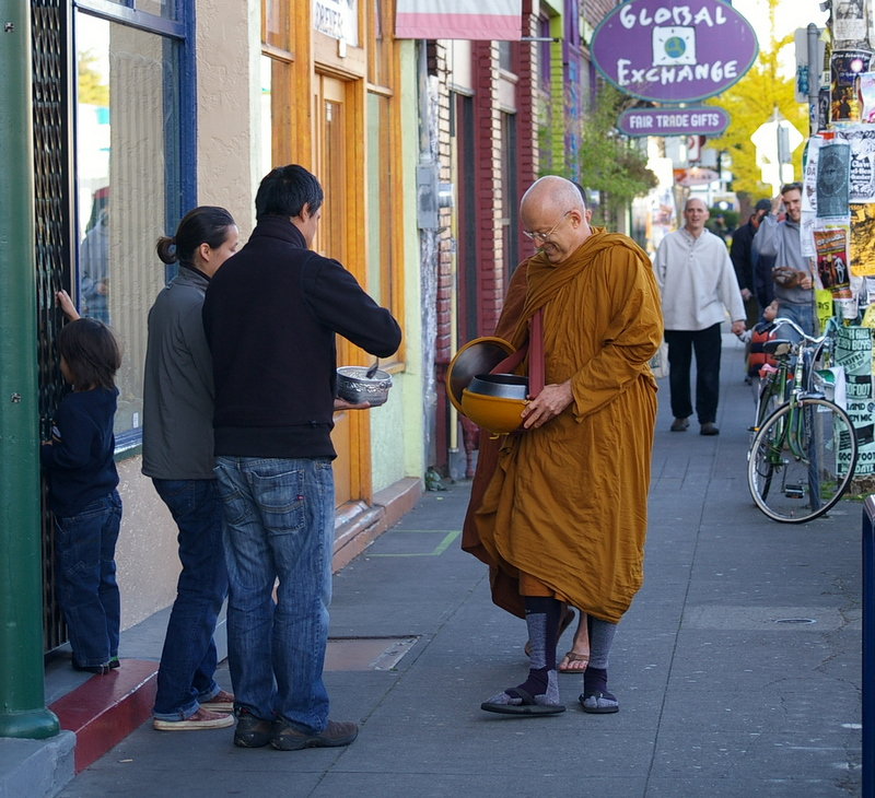 Theravadin Buddhist Monk Ajaan Geoff goes for Almsround in Portland, OR